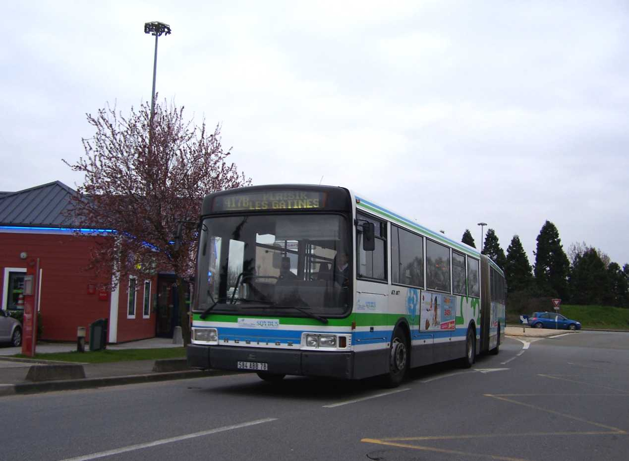 Autobus SQYbus in Plaisir (Yvelines, France)